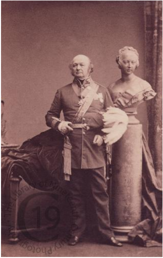 Sir Charles Stephen Gore, National Portrait Gallery